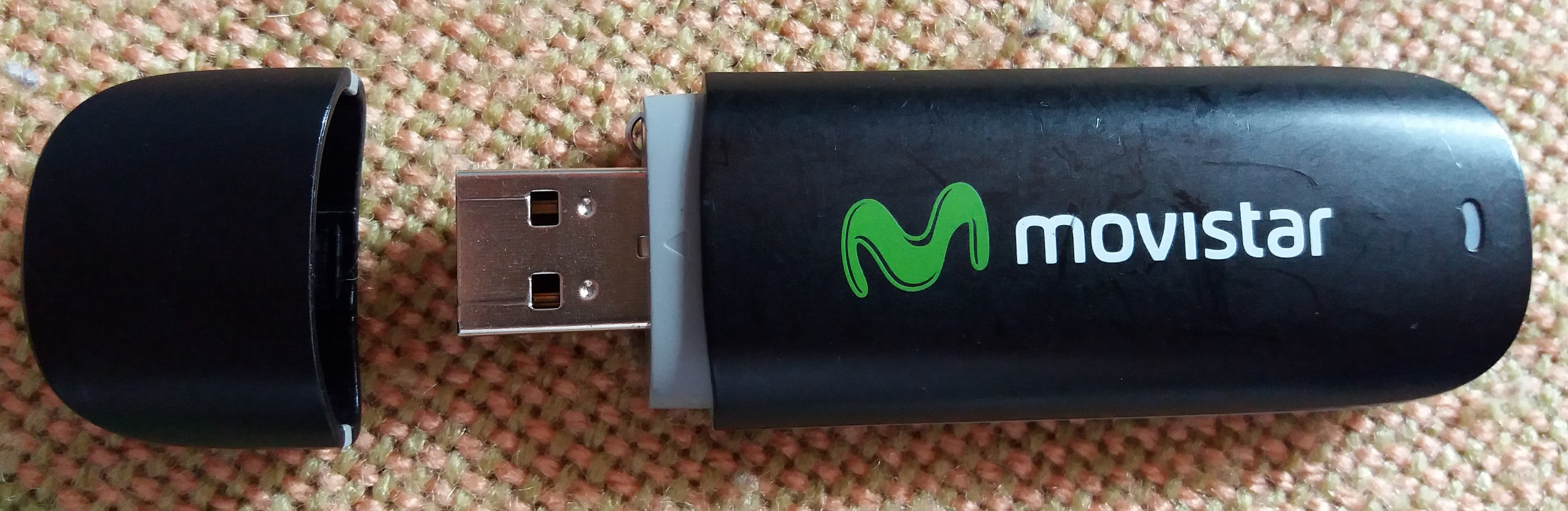 Front view of a USB modem Huawei E173 3G HSPA + from Movistar Colombia Mobile broadband